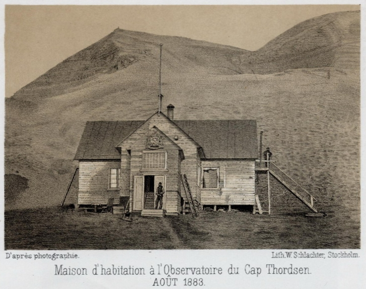 Svenskehuset, rear view, Spitsbergen, Cape Thordsen in Isfjorden (a Norwegian archipelago in the Arctic Ocean). This is the site of the Svenskehuset Tragedy in 1872–73.